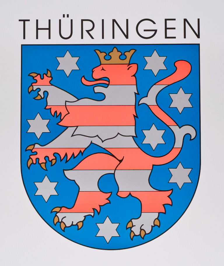 Coat of arms of Thuringia